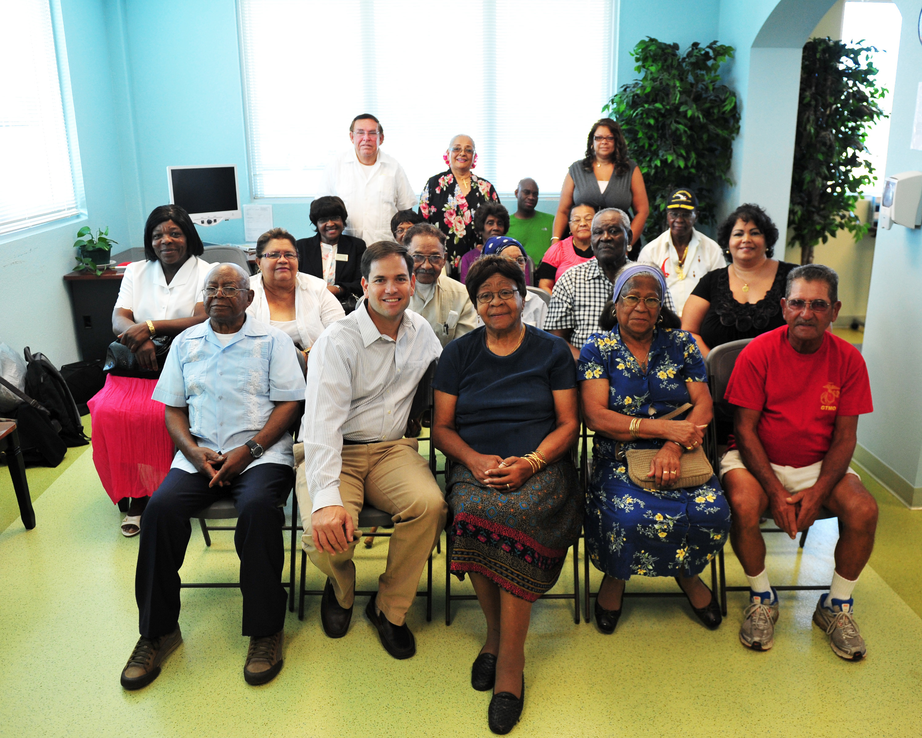 Original caption: “Florida Sen. Marco Rubio has his photo taken with Cuban migrants also known as Special Category Residents (former Cuban citizens that now live and work at Naval Station Guantanamo Bay as permanent residents) at a community center during his visit to Joint Task Force Guantanamo and Naval Station Guantanamo. This was the first trip to Cuba for the Cuban-American politician who was born in Miami. Rubio's trip conducted an oversight of the facilities, touring the base and meeting with the commander of Joint Task Force Guantanamo. JTF Guantanamo provides safe, humane, legal and transparent care and custody of detainees, including those convicted by military commission and those ordered released by a court. The JTF conducts intelligence collection, analysis and dissemination for the protection of detainees and personnel working in JTF Guantanamo facilities and in support of the war on terror. JTF Guantanamo provides support to the Office of Military Commissions, to law enforcement and to war crimes investigations. The JTF conducts planning for and, on order, responds to Caribbean mass migration operations.”